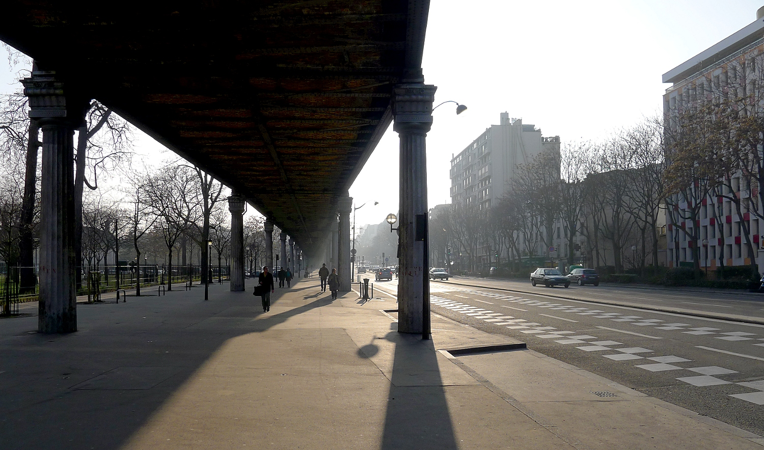 Hopital boulevard - Paris